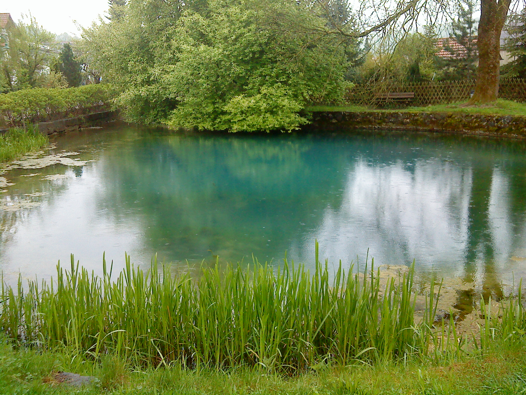 Karst spring of river Lone, Swabian Alb in Urspring, Germany.